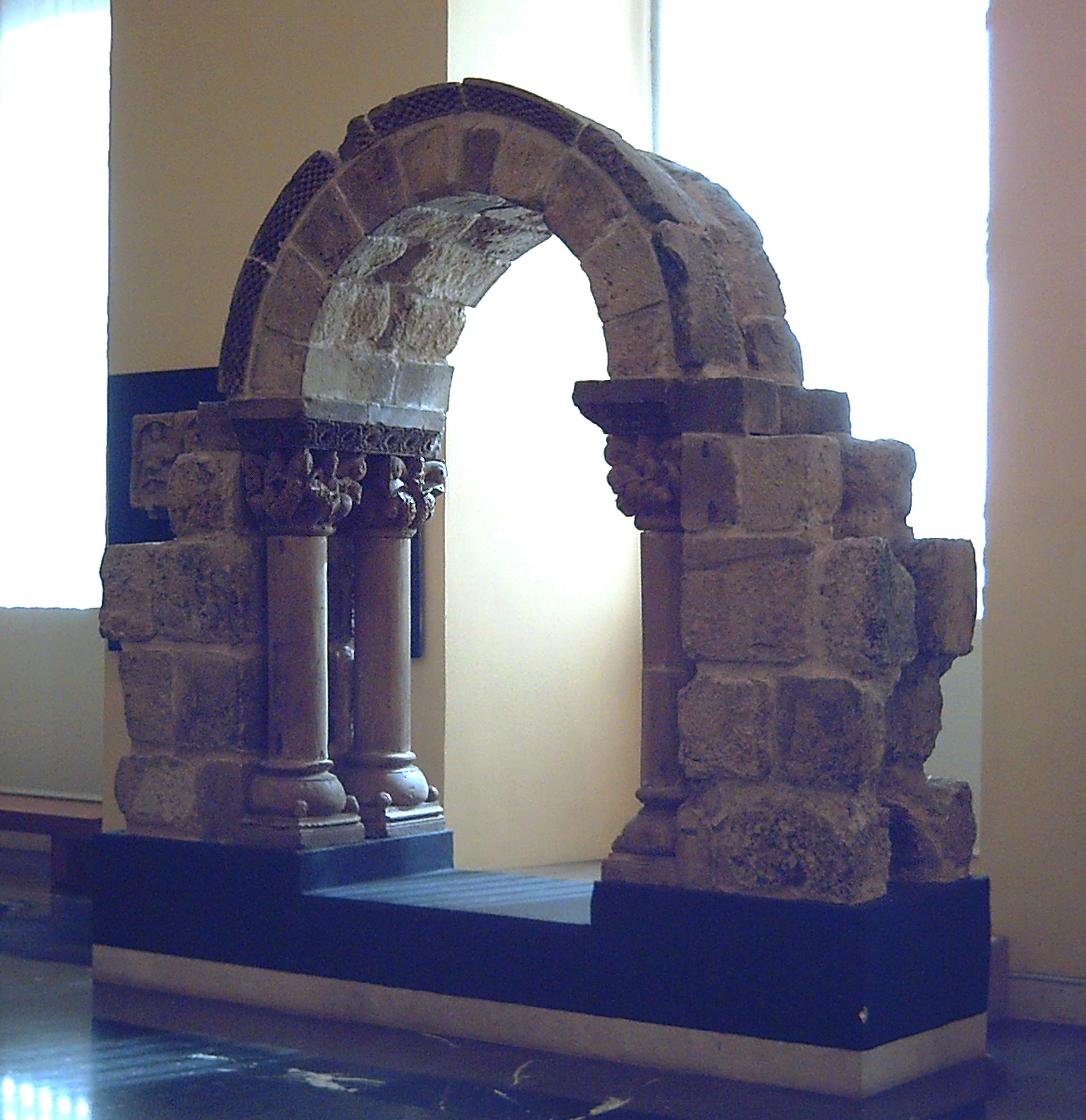 A Romanesque arch held by capitals. Group from the Monastery of San Pedro de las Dueñas (Province of León, Spain).